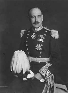 This image shows a photograph of Sir Malcom Barclay-Harvey, taken in 1939. Under Australian law, all photographs taken in Australia before 1955 are in the public domain. This image is in the public domain under both Australian copyright law and US copyright law. Accessed from